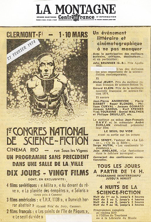 Article - La Montagne